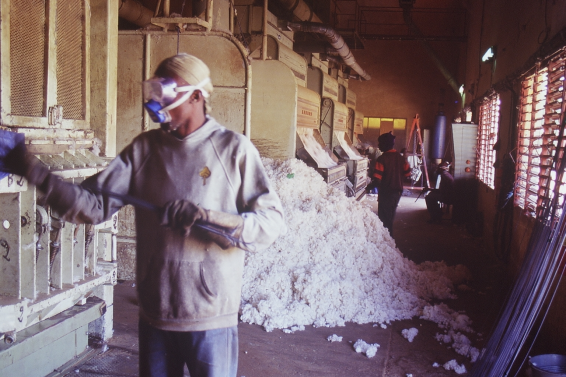 Cotton-fabric in Mali.